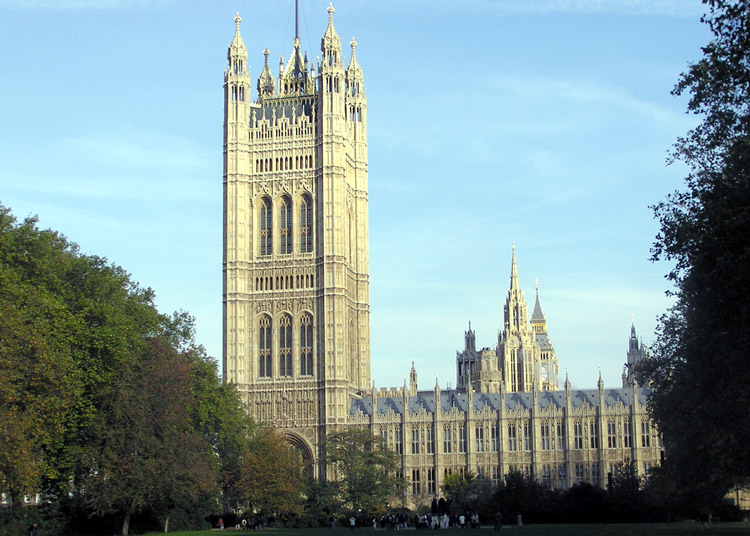 The Victoria Tower, Parliament, seen from Victoria Tower Gardens. Taken by Adrian Pingstone in November 2004 and released to the public domain. Category:Images of London